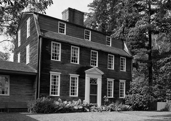 Tate House, 158 Westbrook Street, Stroudwater (Cumberland County, Maine) (cropped)